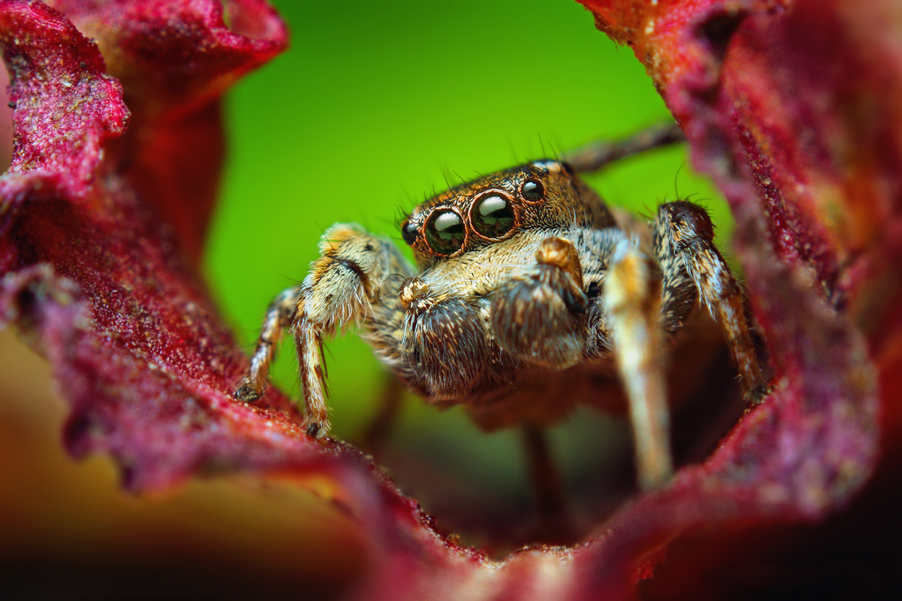 Here's an old shot from last last May that I originally turned down in favor for this shot. I realize this type of shot may not be a big hit, but in retrospect, I prefer this composition despite the decreased magnification and hidden chelicerae. Here's the original text that accompanied the last post: Several weeks ago, I photographed an interesting looking female Habronattus at a spot near the Canadian River I visit frequently to look for tiger beetles. She looked quite different than the usual female H. coecatus specimens I can find relatively easily around Oklahoma, so I've been having high hopes I finding a new Habronattus male species every time I head out to the spot. So, my persistence payed off, and after a rather unsuccessful afternoon of stalking the larger tiger beetles near the river, I spotted this little guy (~4mm) as he was watching a large caterpillar wiggle its way across the sandy path. I was exhausted and didn't feel like chasing him around in the sand, so I let him hop in a jar I had with me and took him on home. Although not as flashy as some of the Habronattus species in the U.S., this little male H. cognatus is handsome in his own right - I love those intermittent, mottled scales on his chelicerae. He wasn't in the best cosmetic shape (missing scales/worn) but proved to be quite a lively and active spider that would only slow down when partially covered by the leaves I collected and set out to photograph him on. During the next bug-hunt, I released him at the excact same spot where I found him. If you are interested in the Habronattus genus (you really should be) make sure to take a look at tolweb's entry here